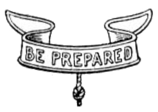 The insignia of a Second Class Scout, UK and the British Empire, 1919.